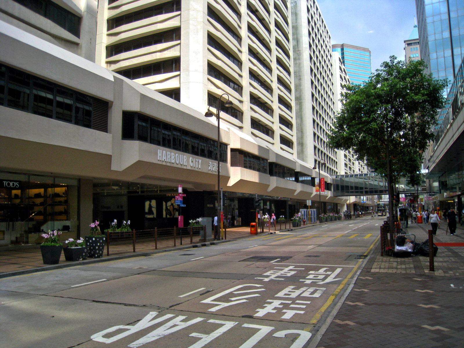 Canton Road 廣東道